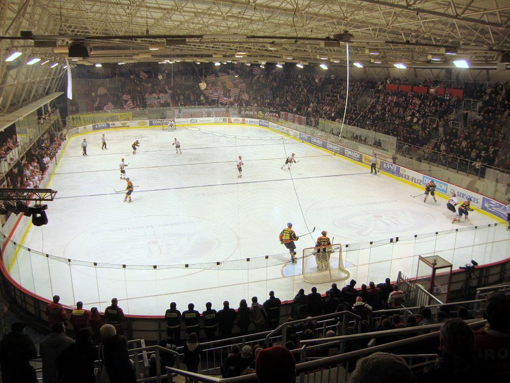 Polska Lega Hokejowa Finał 2010 Cracovia 4-5 Podhale Nowy Targ Kraków, Poland